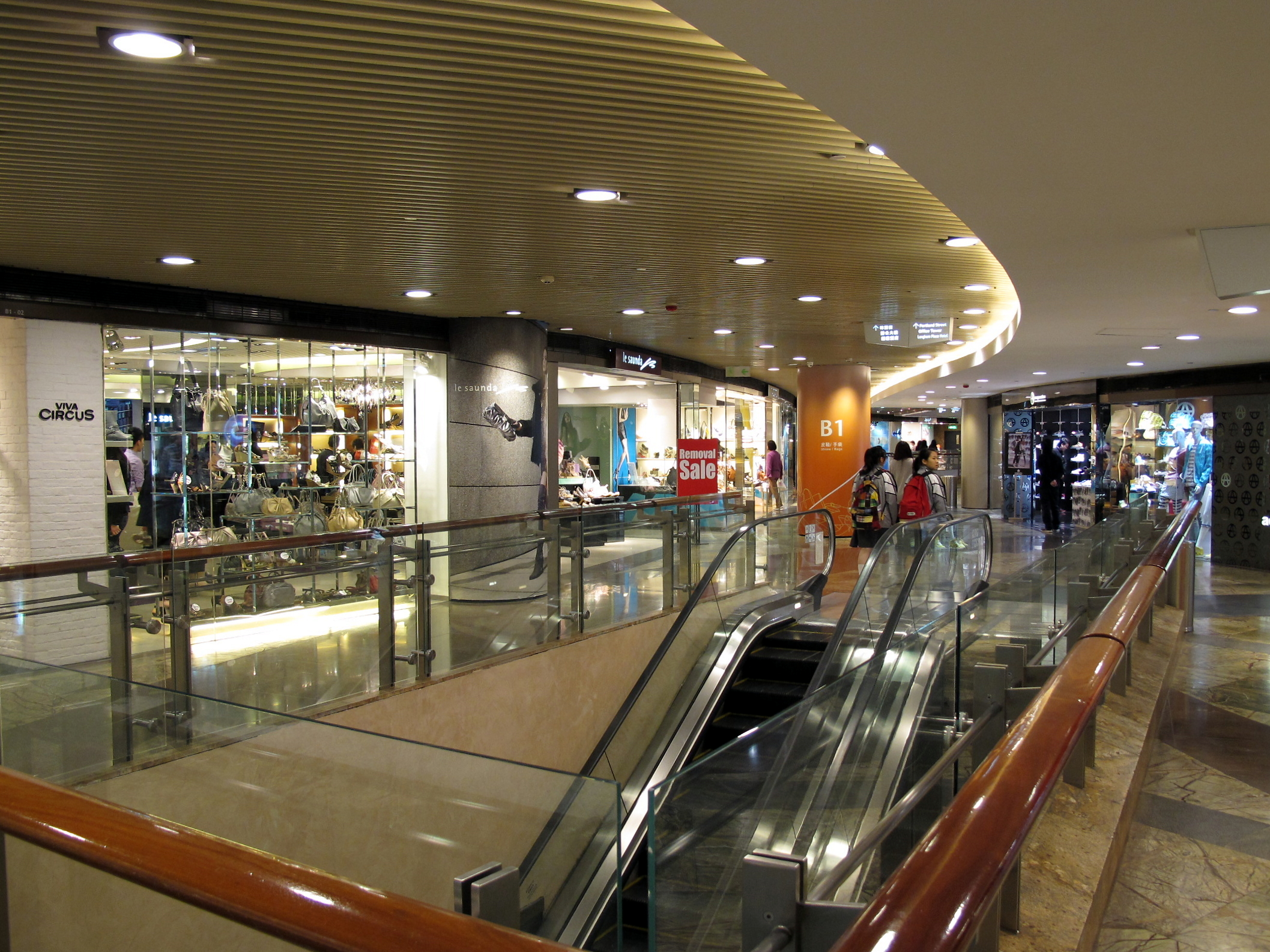 Langham Place B1